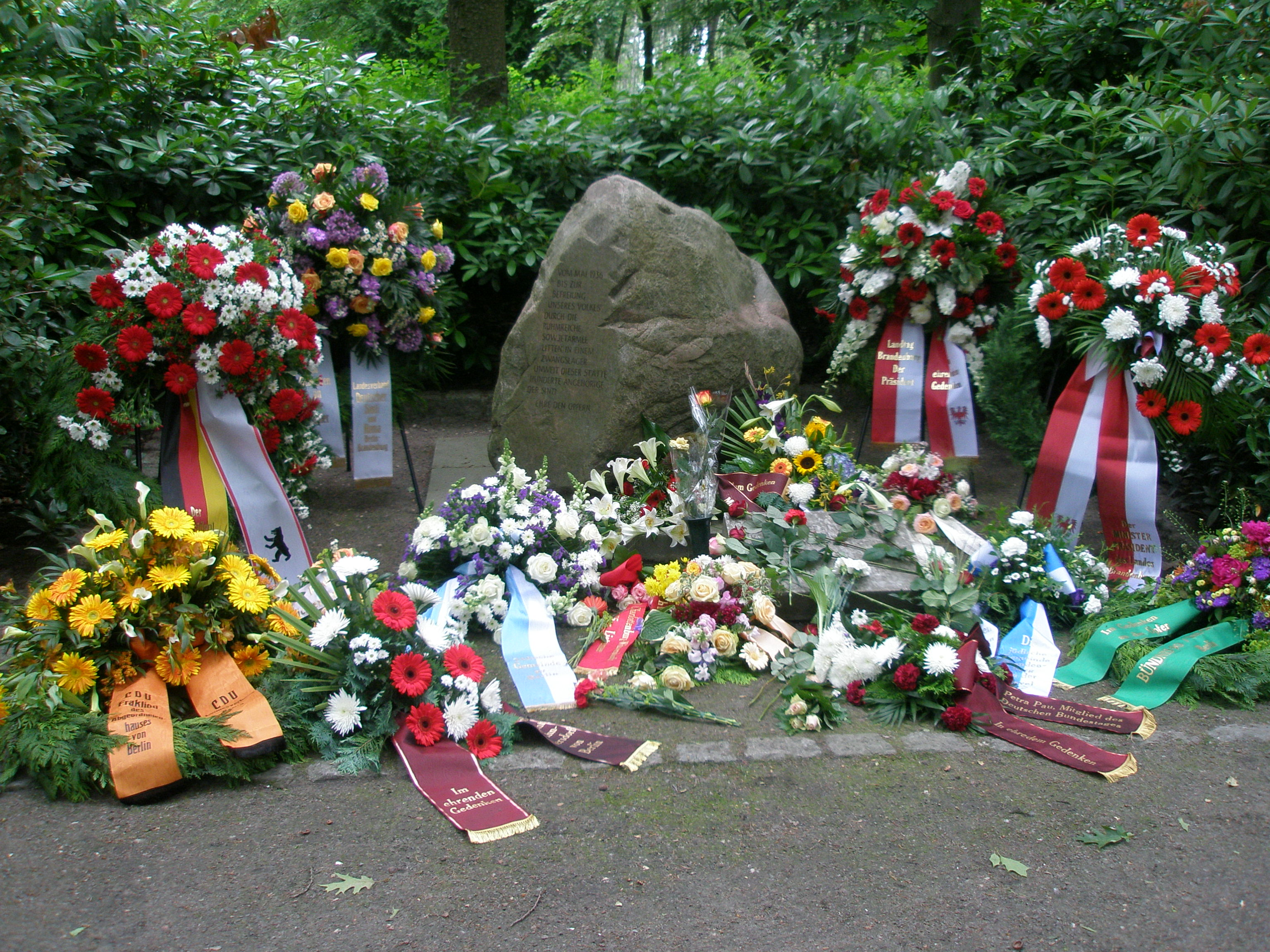 Memorial stone, carved by sculptor Jürgen Rave, for the Sinti and Roma who have been gathered here in the Third Reich before later deportation to the extermination camps.